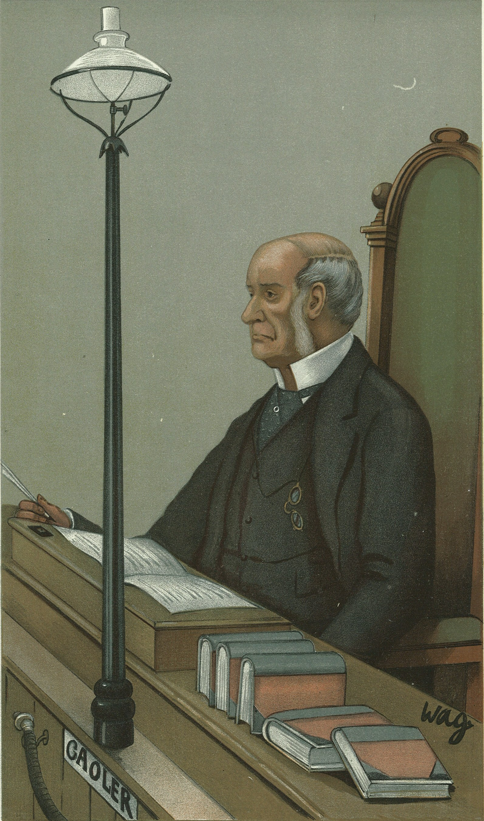 Caricature of Albert De Rutzen (1831-1913). Caption read "a model Magistrate". New York Times obituary : .